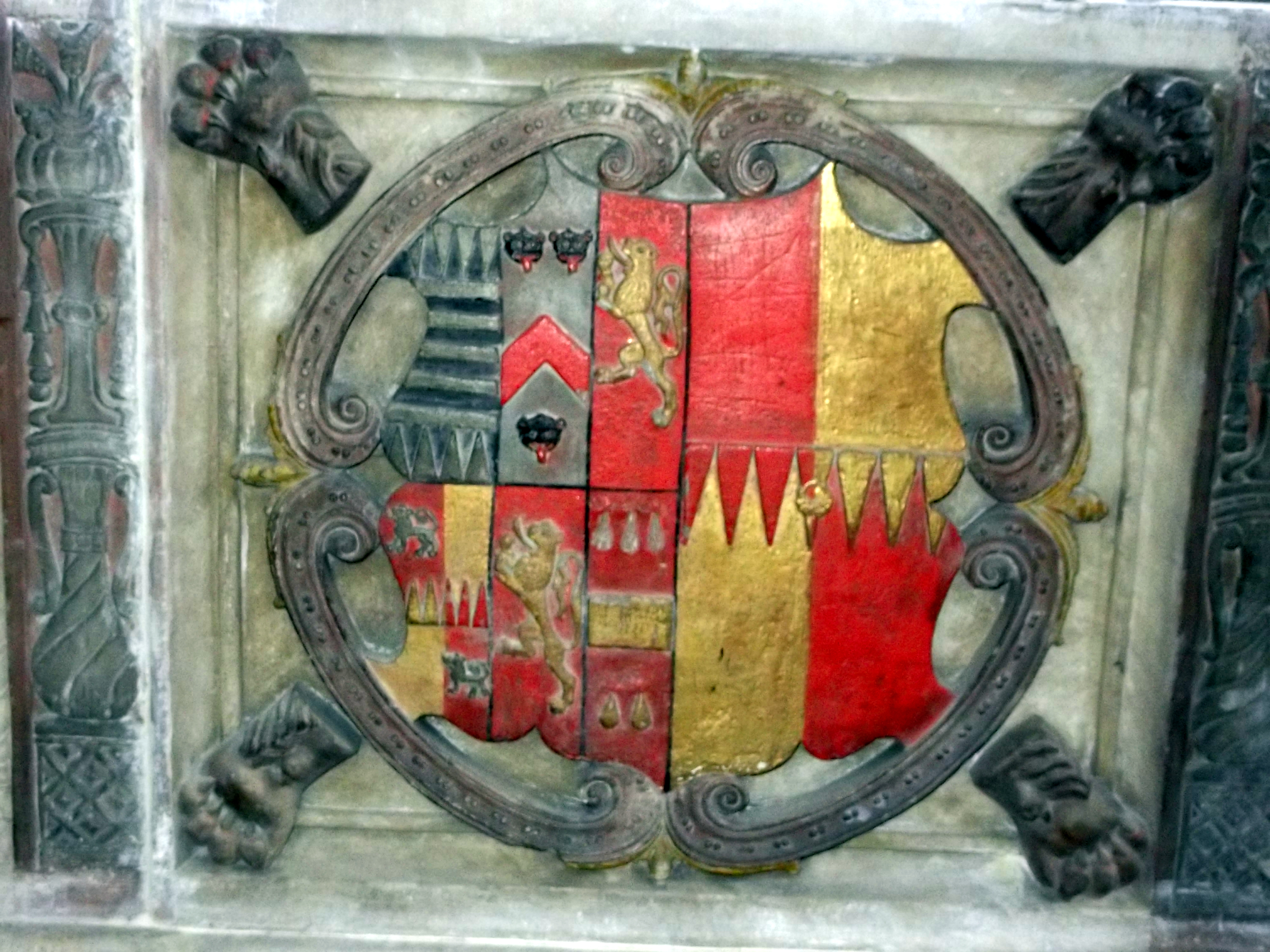 Arms of Chief Justice Thomas Bromley (died 1555) impaled with those of his wife, Isabel Lyster. St Andrews parish church, Wroxeter, Shropshire.